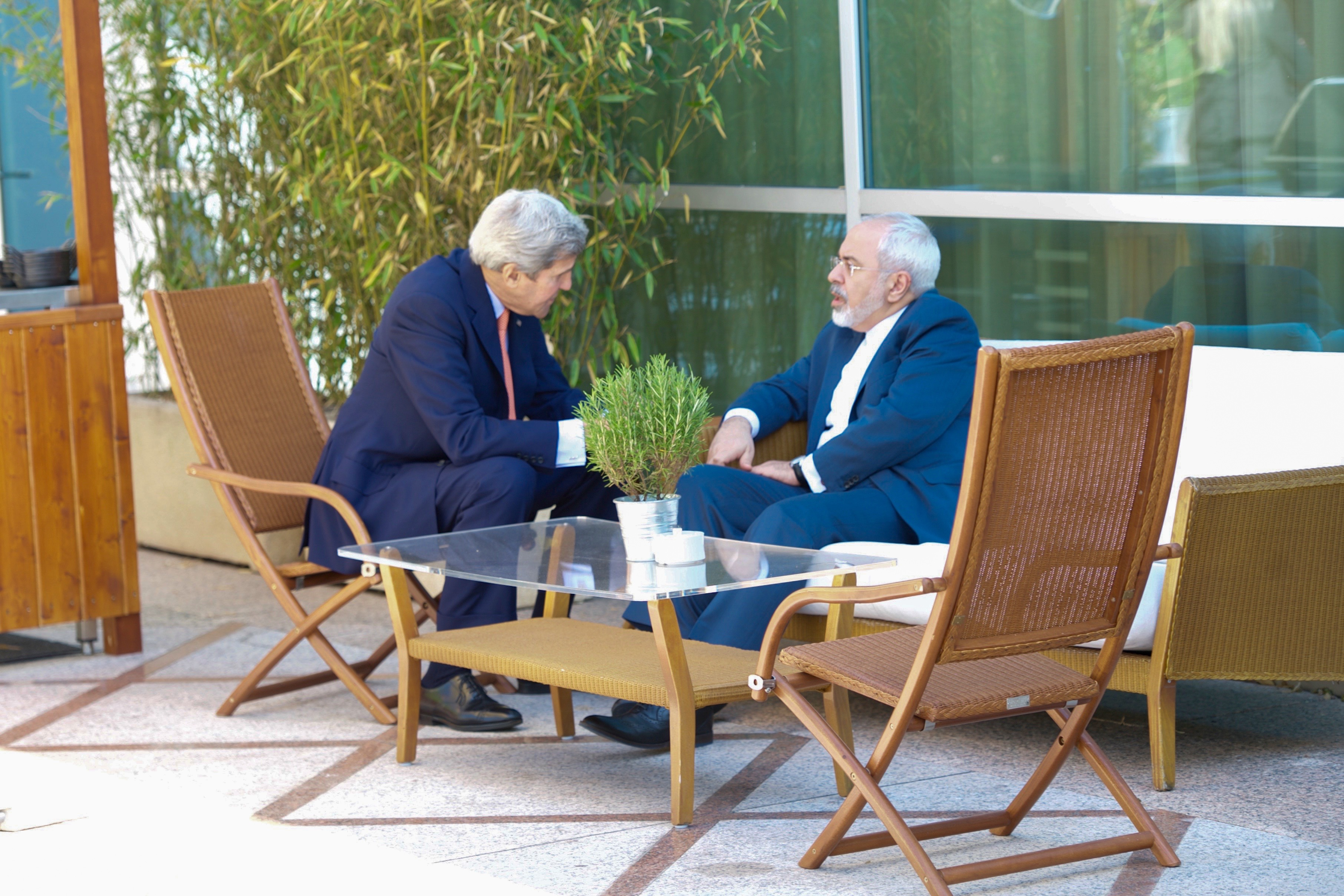 U.S. Secretary of State John Kerry sits with Iranian Foreign Minister Javad Zarif for a one-on-one chat before a broader meeting in Geneva, Switzerland, on May 30, 2015, at the outset of the latest round in the P5+1 negotiations about the future of Iran's nuclear program. [State Department Photo/ Public Domain]